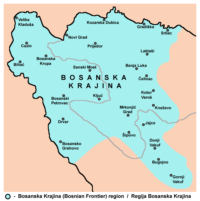 Bosanska Krajina (Bosnian Frontier) region.Srpskohrvatski / српскохрватски: Regija Bosanska Krajina.